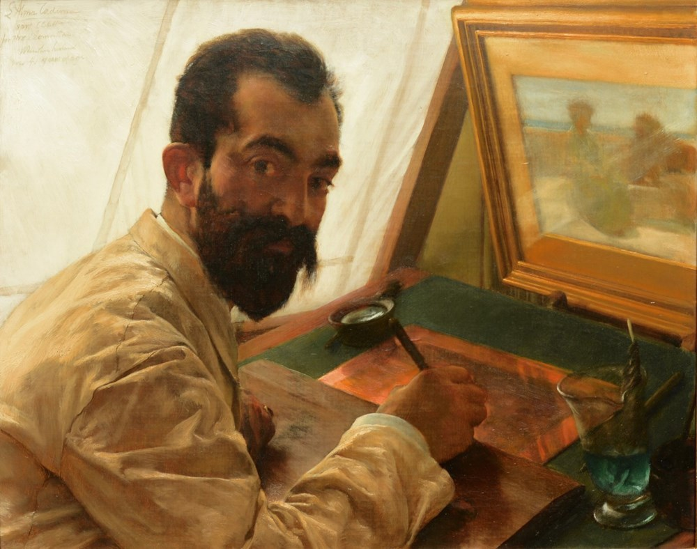 The painting is a portrait of the etcher Leopold Löwenstam, a friend and colleague of Lawrence Alma-Tadema. More: Here Léopold Lowenstam (1842–1898) Alternative names Leopold LöwenstamDescriptionDutch printmakerDate of birth/death 17 February 1842 29 May 1898 / 28 May 1898 Location of birth/death Dusseldorp WoodcroftWork location Amsterdam, Stockholm, LondonAuthority control : Q19295188 VIAF: 96334932 ISNI: 0000 0000 8402 6937 ULAN: 500089808 LCCN: no2010166996 BPN: 17973737 WorldCat creator QS:P170,Q19295188